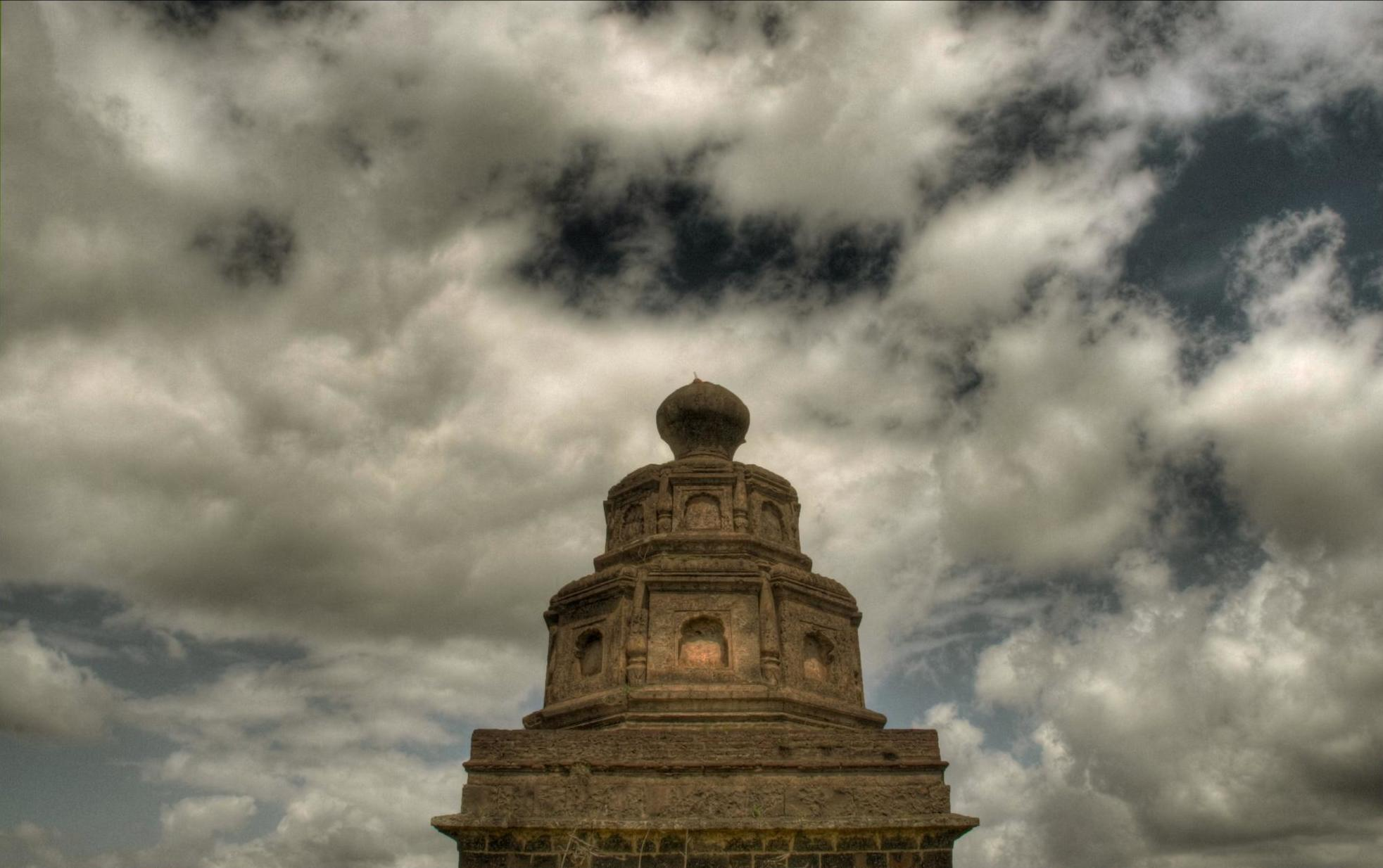 Place - Fort Malhargad, Maharashtra, India